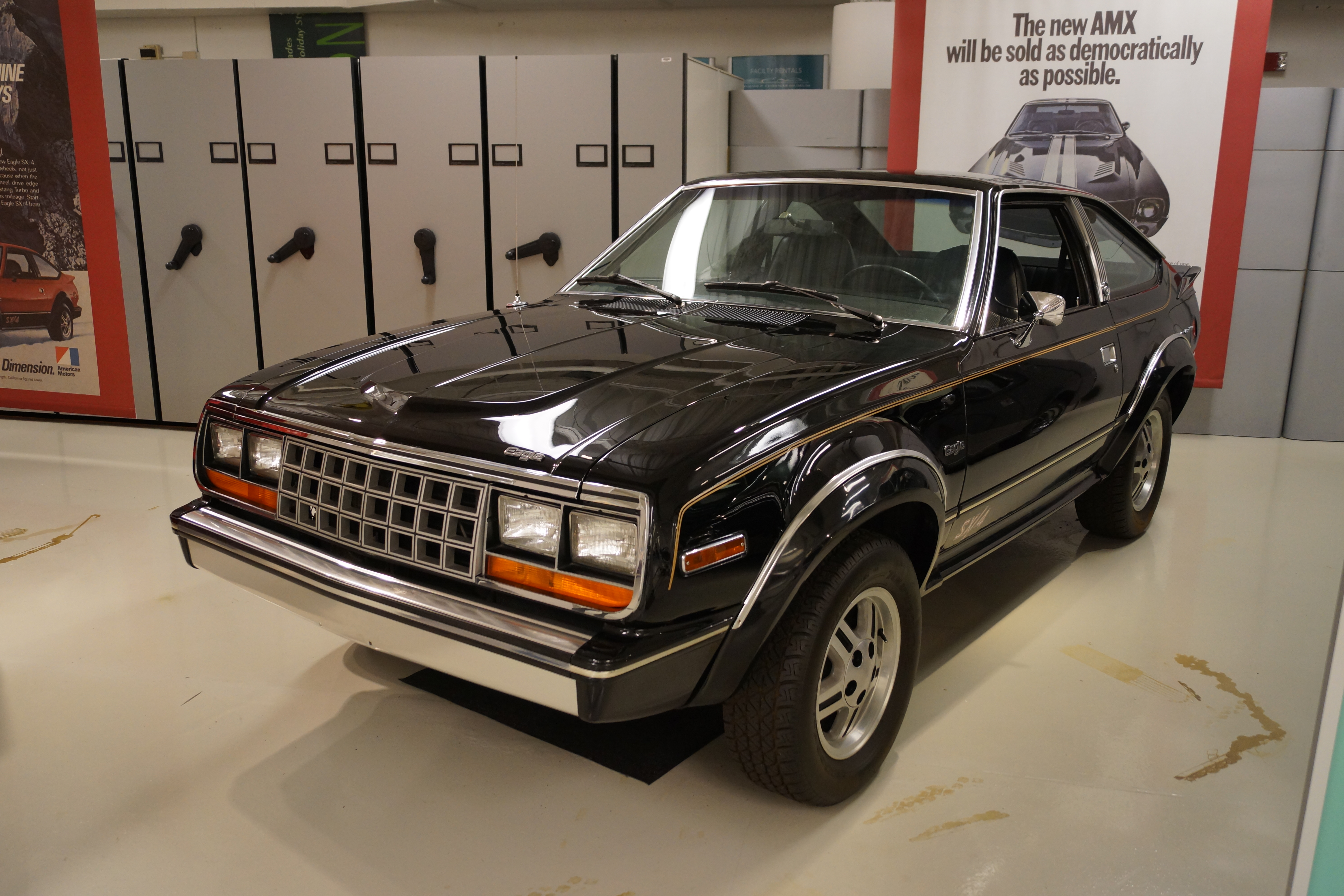 Click here for more car pictures at my Flickr site. Or here for my Car Crazy Tumblr site. Back on November 4th, Hemming's Blog posted an article about the closing of the Walter P. Chrysler Museum . I had missed a couple other opportunities with the WPC Club and others to get into the museum, after it had closed to the public. I did not want to regret missing this last chance to see all of the vehicles before being spread out to other facilities. I trekked from Western Minnesota to Eastern Michigan during Winter Storm Decima. I missed the worst parts of the storm, but still had to endure the aftermath winds, sub zero temperatures and a lake effect snow storm. The trip was difficult, but well worth it. I got to see several Chrysler Corporation concept and show cars that I had only seen pictures of before. There were several clever interactive displays demonstrating various innovations over the years. Since it was the last chance, I duplicated several shots using different camera settings to see what produced better results. I wish I had invested in a strobe light diffuser for all of those indoor pictures. I have not had much experience or success in the past with indoor car images.